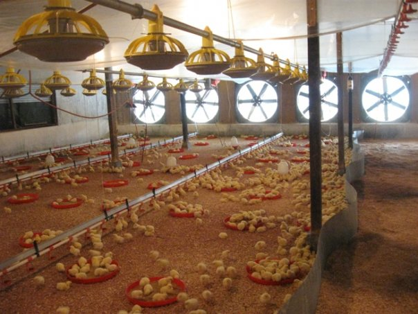 Closed House Broiler Farm